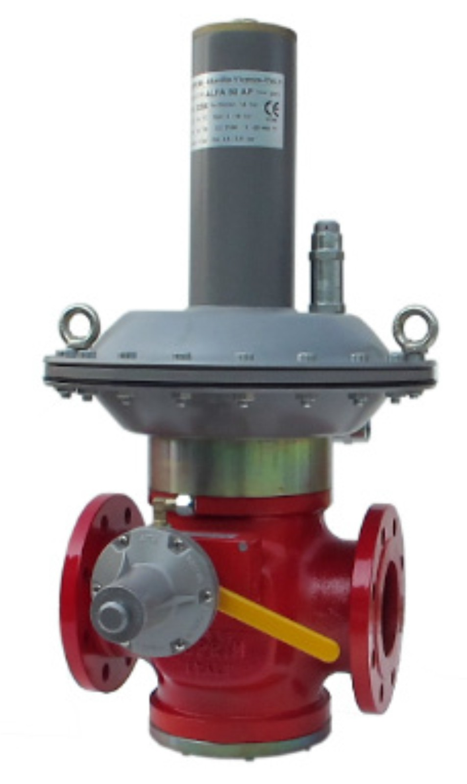 Промышленный регулятор давления СУГ DN100